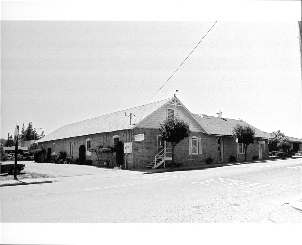 Shows former Petaluma and Santa Rosa Railway Power House. Designed by Brainerd Jones and constructed of stone from Stony Point Quarry. Located at 258 Petaluma Ave., Sebastopol, CA 95472